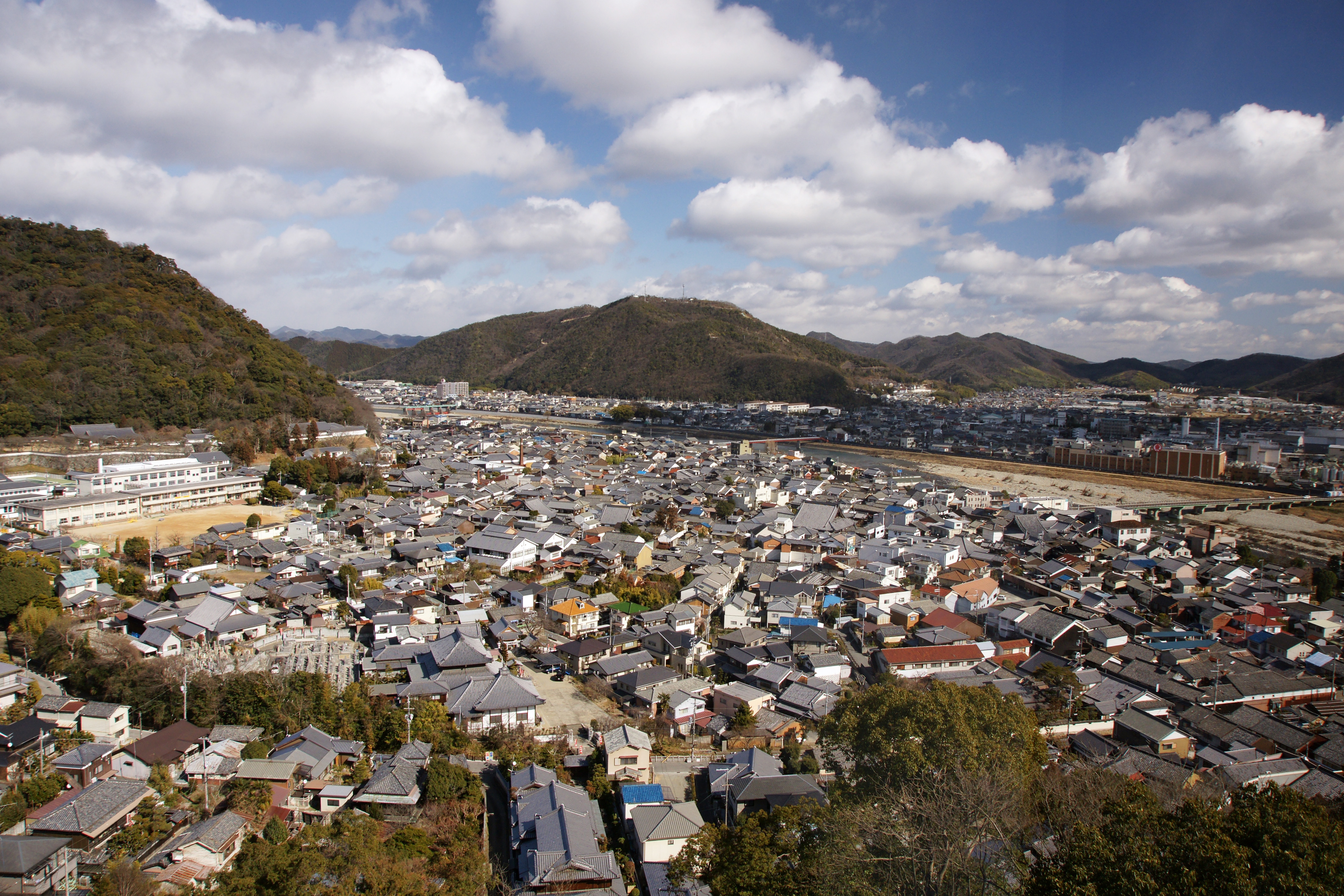 Bourg in Tatsuno Castle, Tatsuno, Hyogo prefecture, Japan